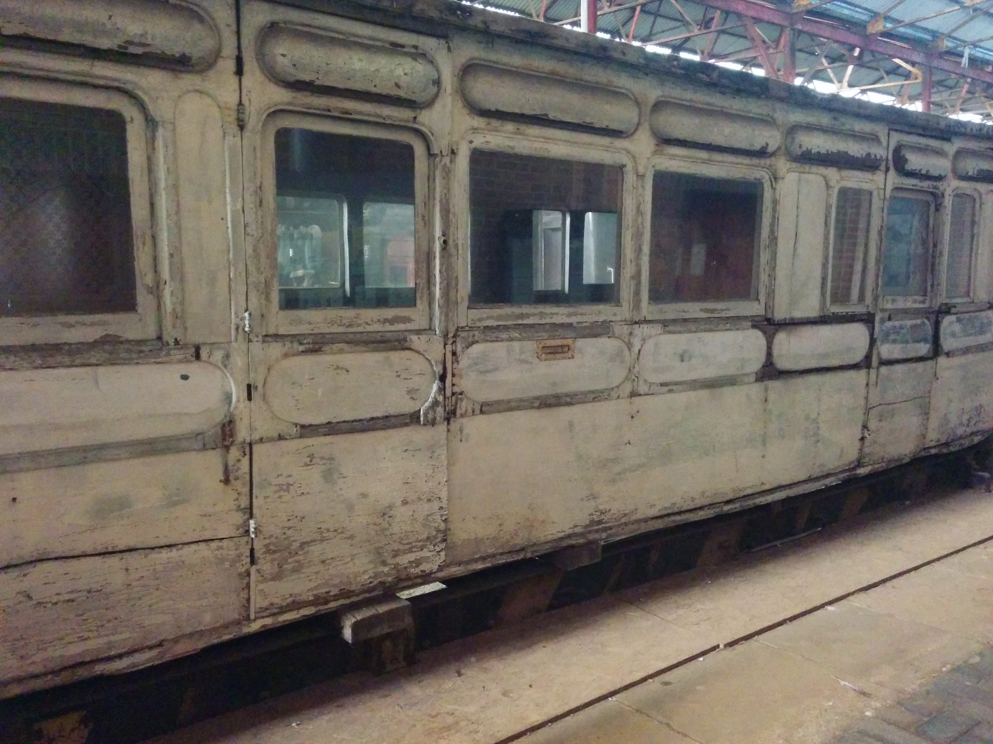 lancs derbys and east coast railway carriage built 1896